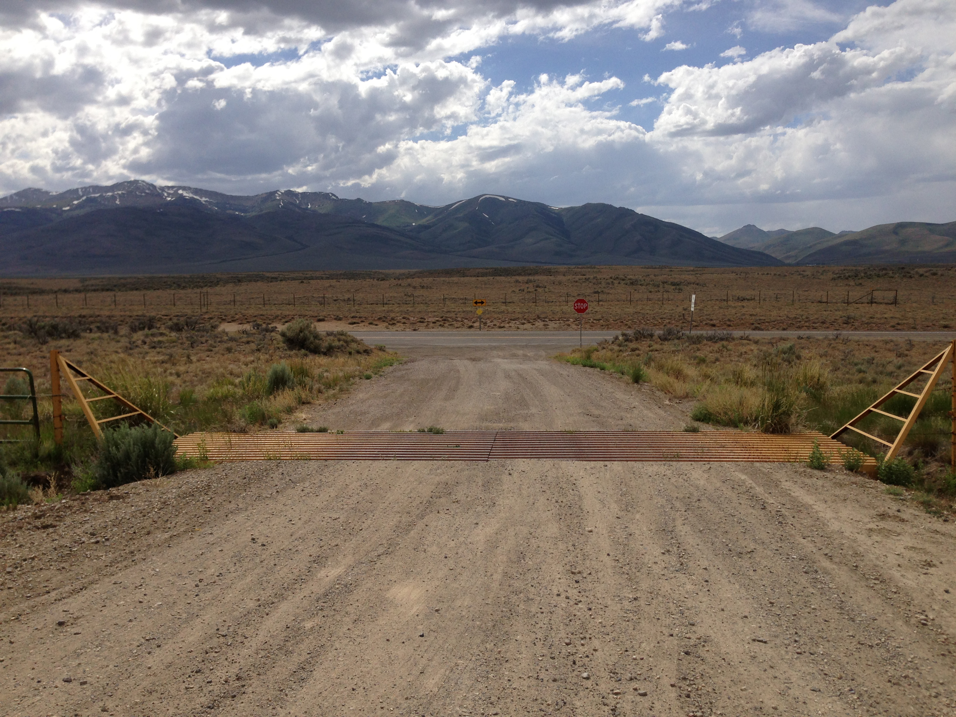 View west at the west end of Elko County Route 746 (North Fork-Charleston Road) at Nevada State Route 225 (Mountain City Highway)